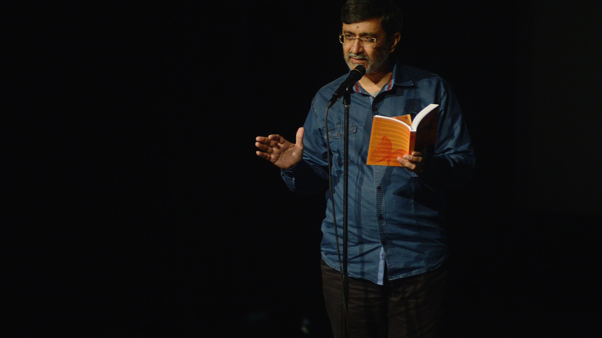 He has participated for poetry reading in 11th Ars Poetica International Poetry Festival, Bratislava, Slovakia and 2nd International Marathi Literature Festival, Dubai, UAE. He read poetry in Poets Anonymous, USA, Poetry Society of Virginia, USA and Charles University, Prague.